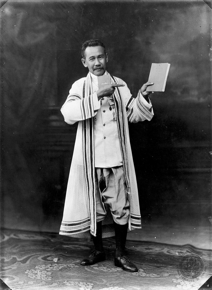 Chaophraya Phrasadet Surentharathibodi, posing with two books. This image has been described[1] as him inviting the public to enter education, with the accompanying caption "It is always safe to learn".